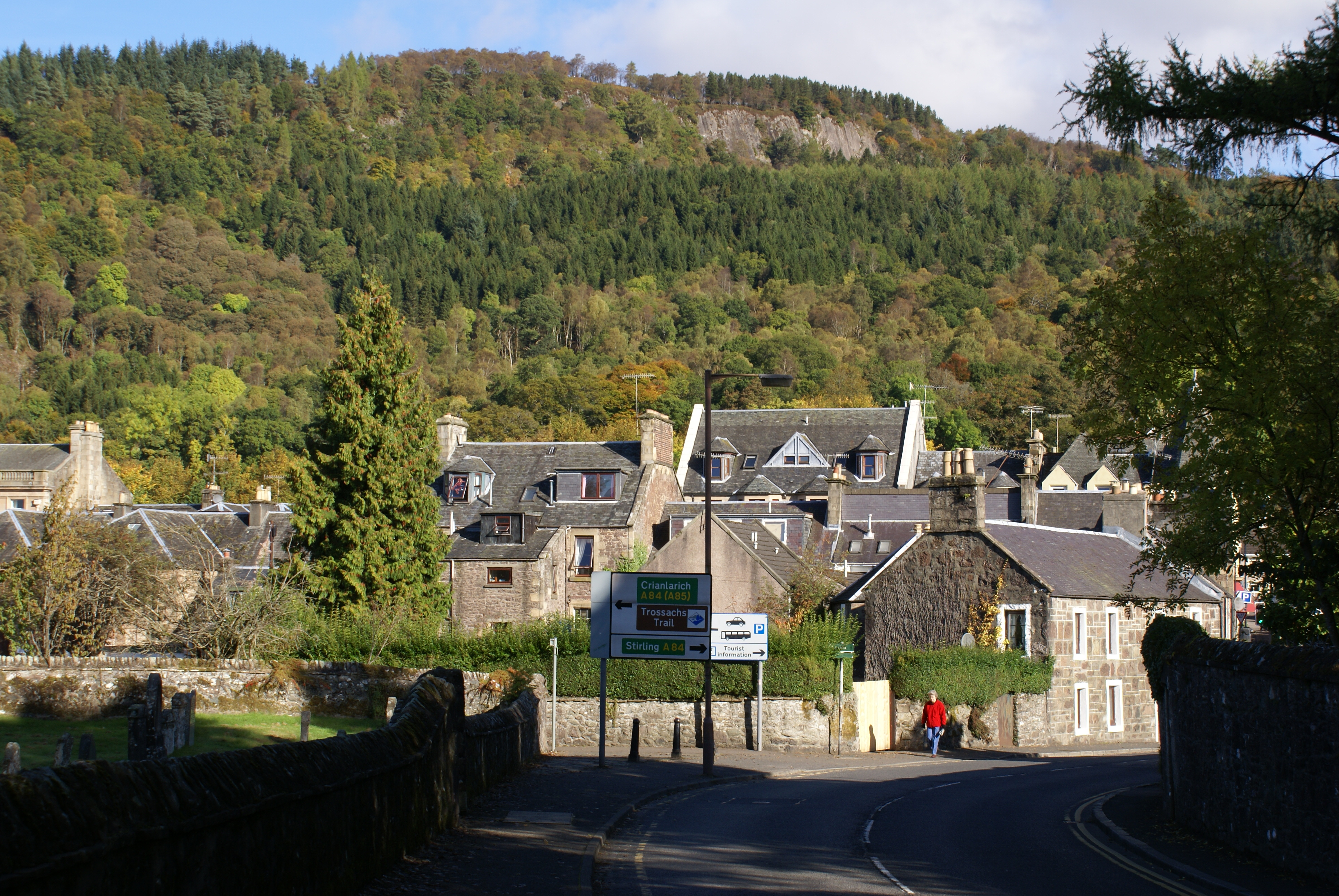 Callander Cracks